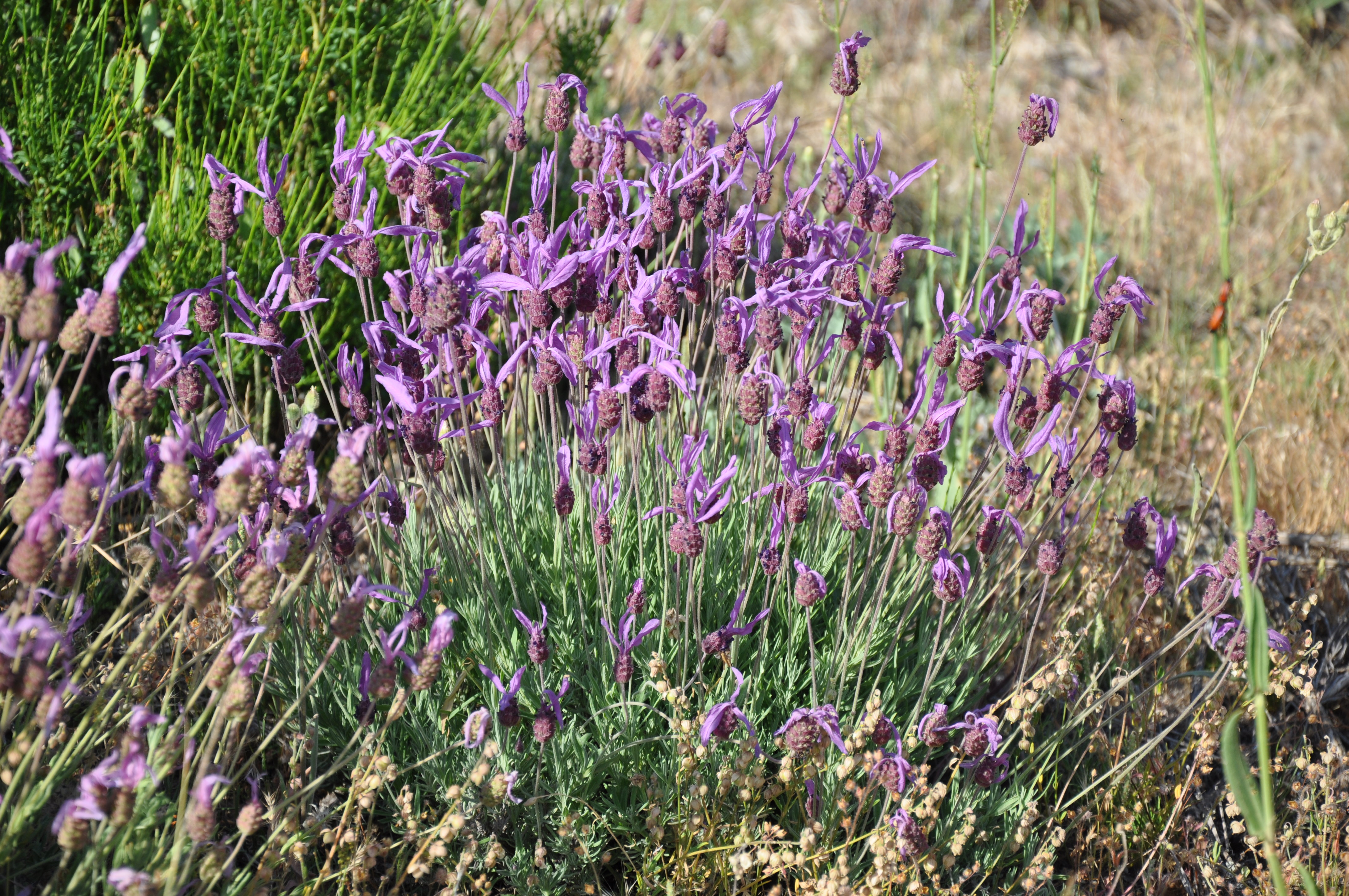 Butterfly lavender, Sierra de Ávila, Spain